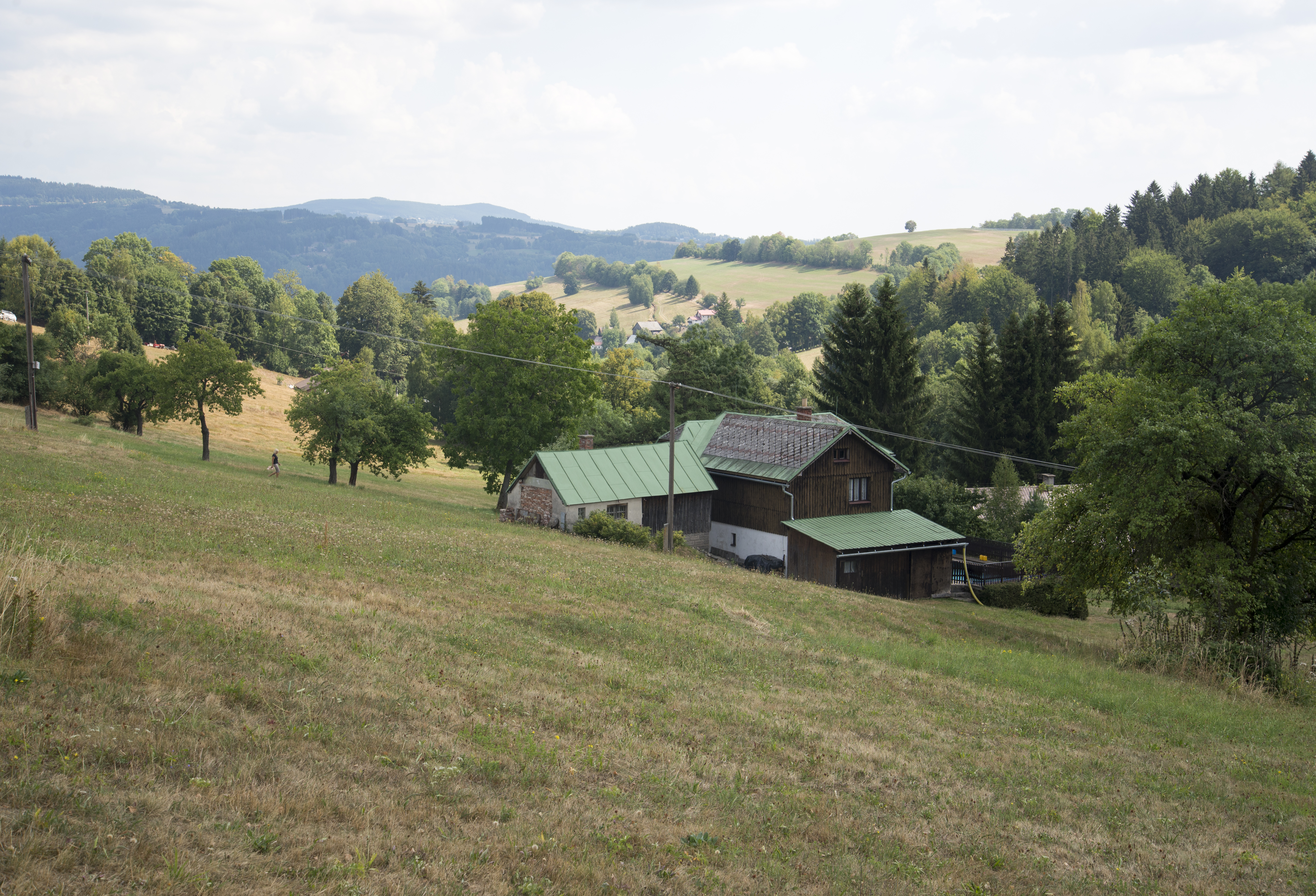 Horní Tříč, village, part of the city Vysoké nad Jizerou, Semily district, Liberec Region